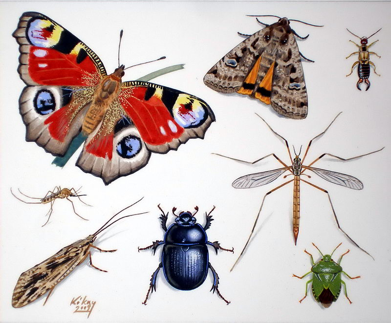 Insects (from Latin: insectum, translation of Greek: entomon - threaded) are a class within the arthropods that have a chitinous exoskeleton.